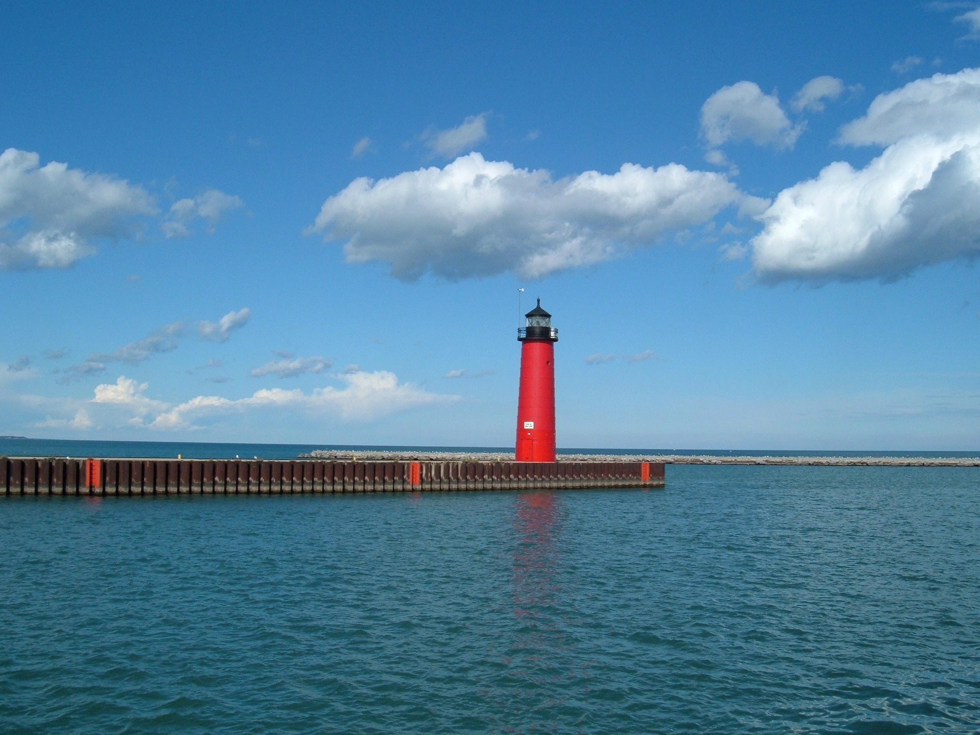 Kenosha North Pier Lighthouse Photo taken by Dave Piasecki in 2006